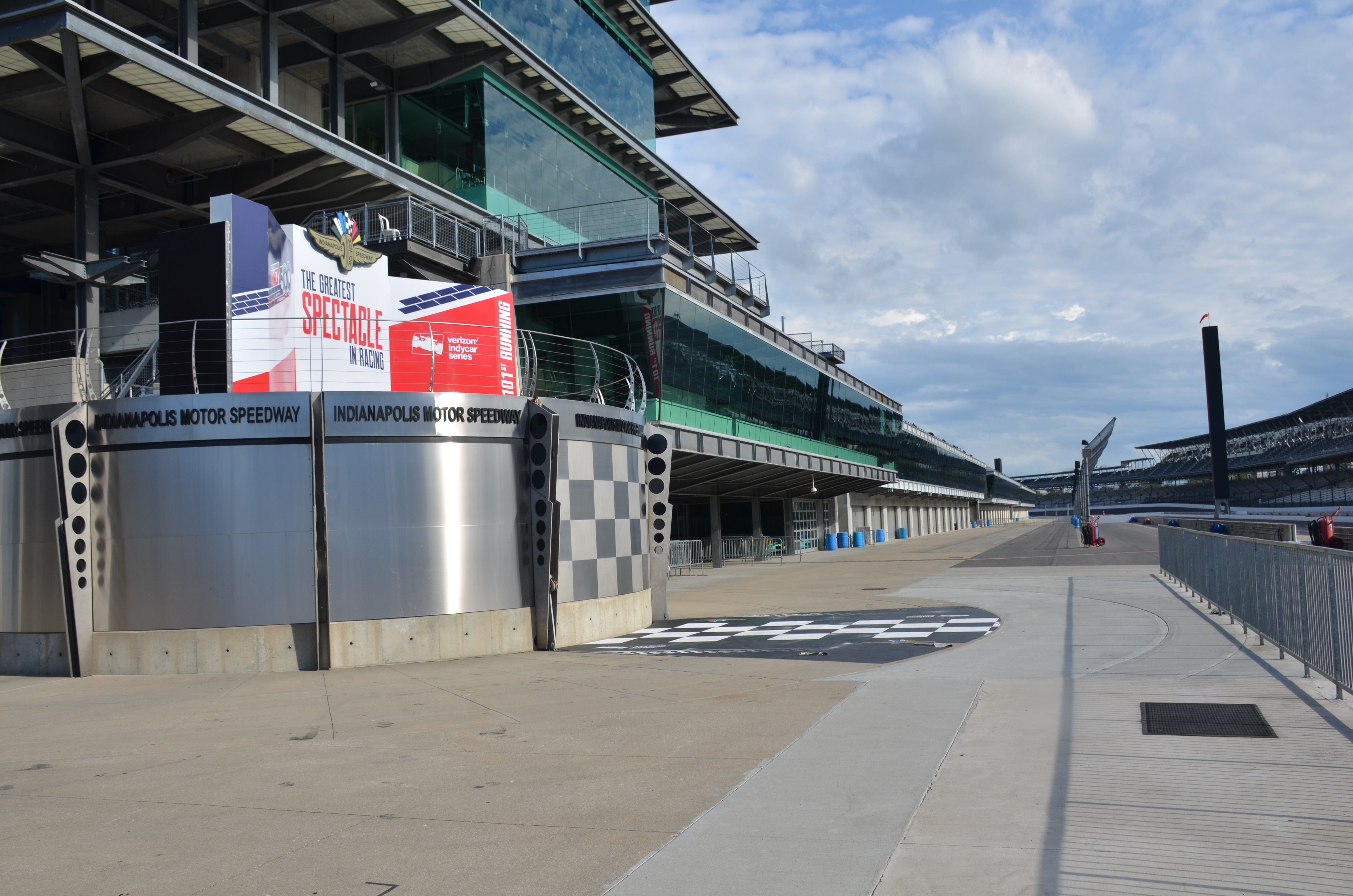 Victory Lane at the Indianapolis Motor Speedway/